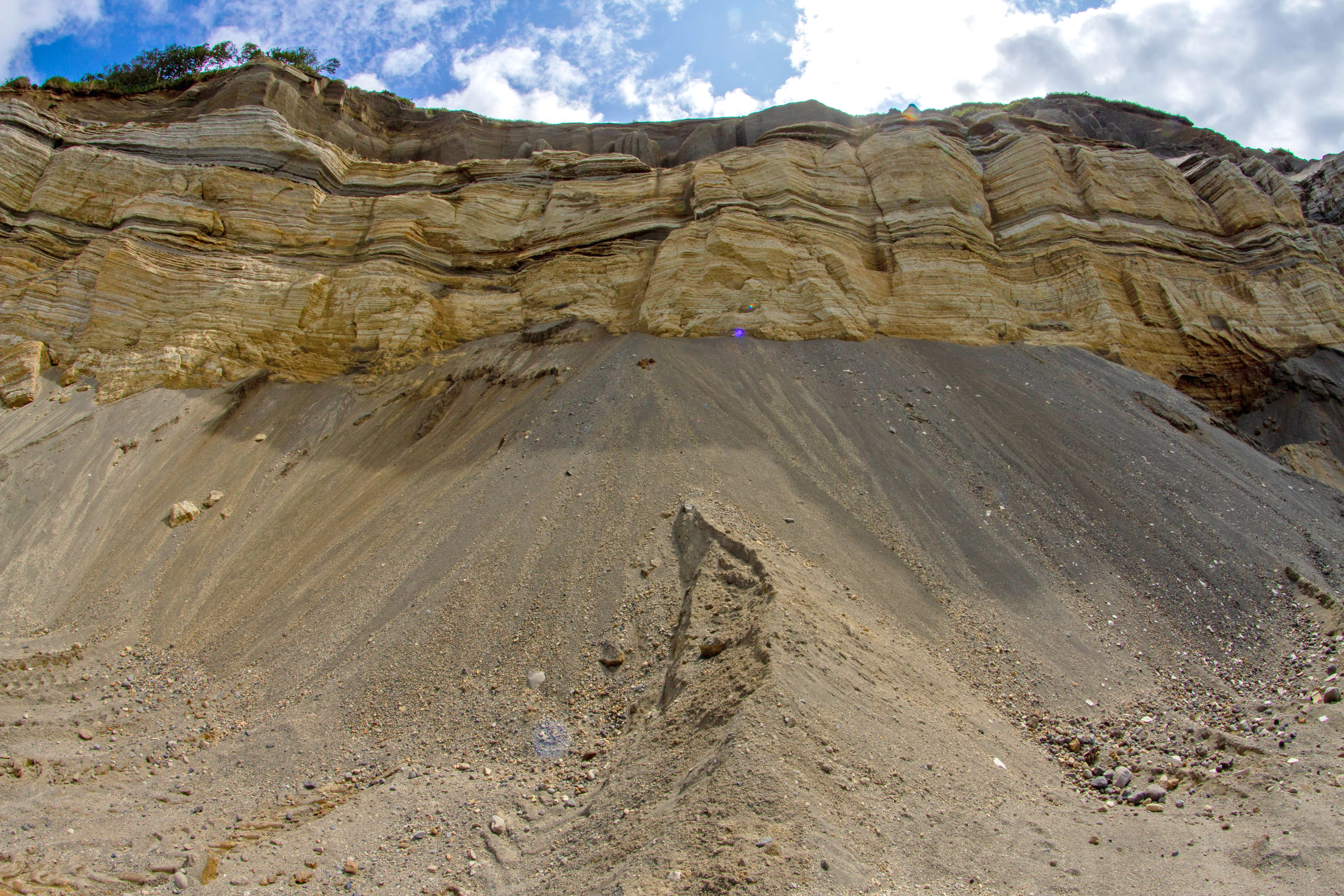 Iturup Island nature, fall 2019